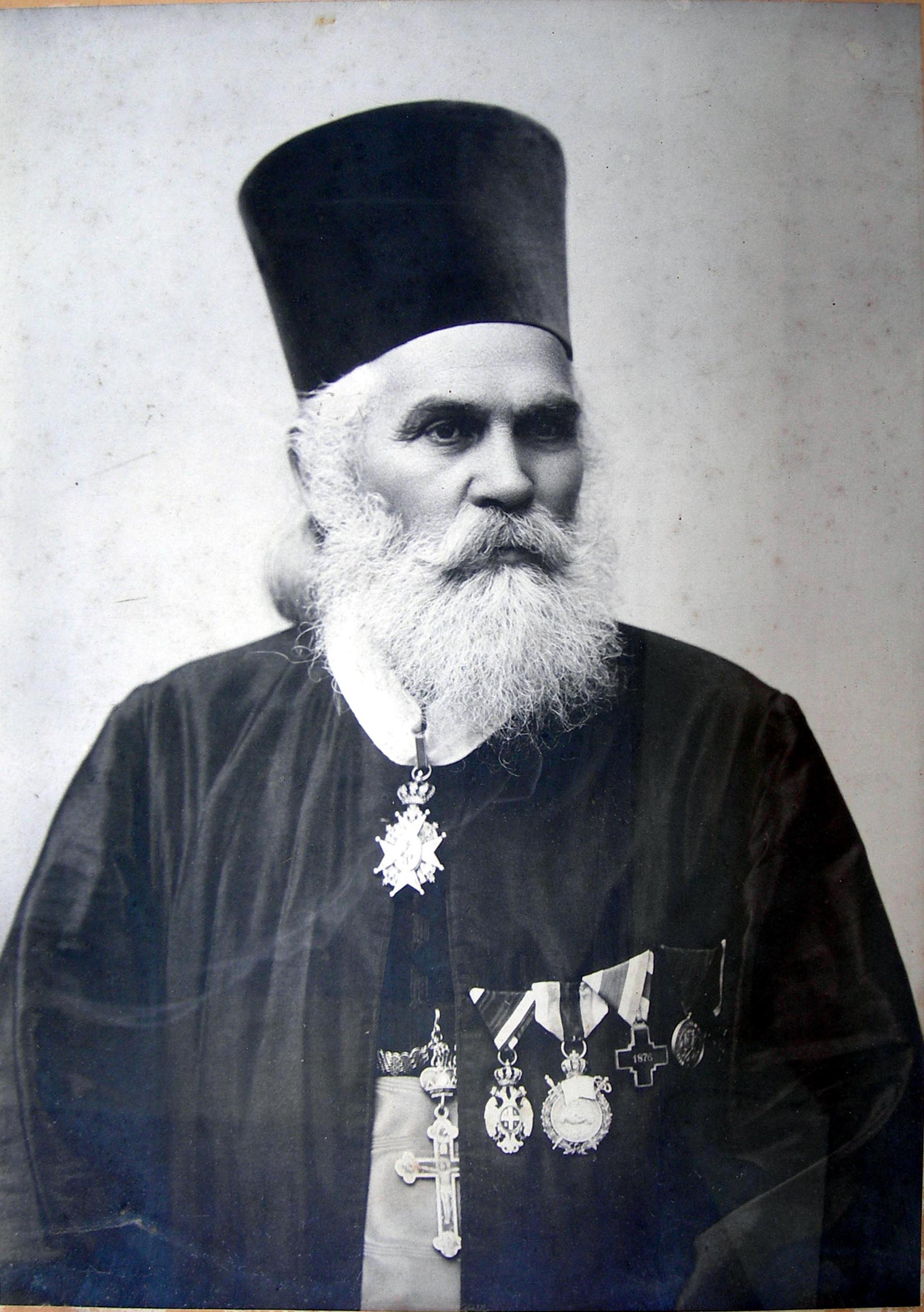 Jovan Stanojevic, archpriest in Negotin Srpski (latinica): Jovan Stanojević, protojerej okruga krajinskog